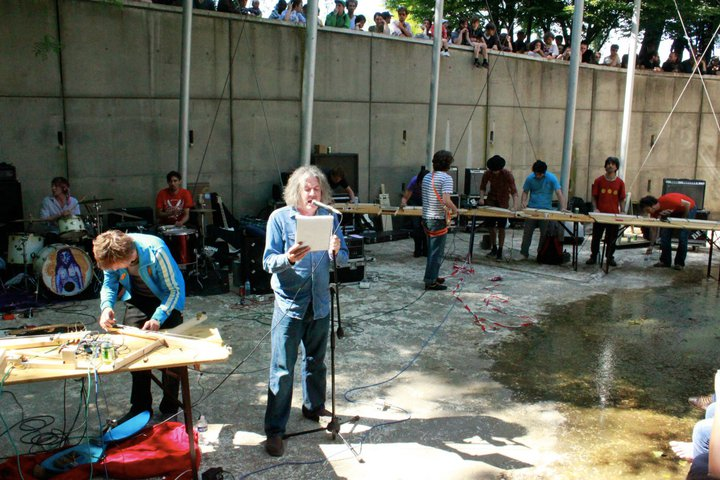 Jad Fair live at Villette Sonique 2011, Parc de la Villette, Paris